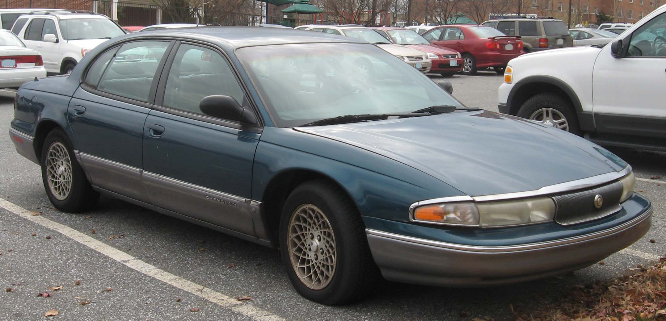 1994-1996 Chrysler New Yorker photographed in College Park, Maryland, USA.